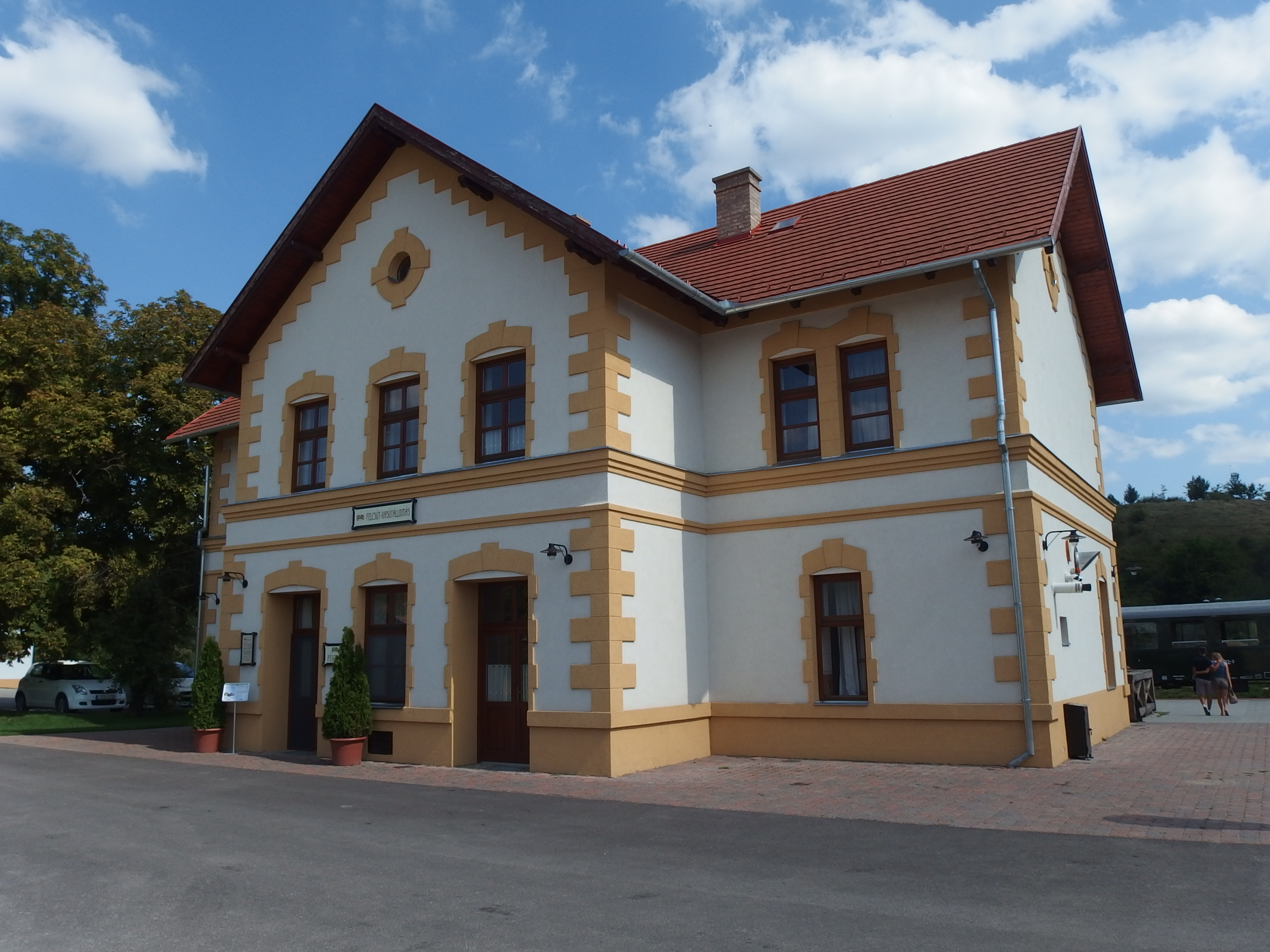 Train station at Felcsút, Hungary